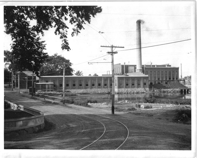 Carhouse (front) and powerhouse of the Groton and Stonington Street Railway in West Mystic in 1905